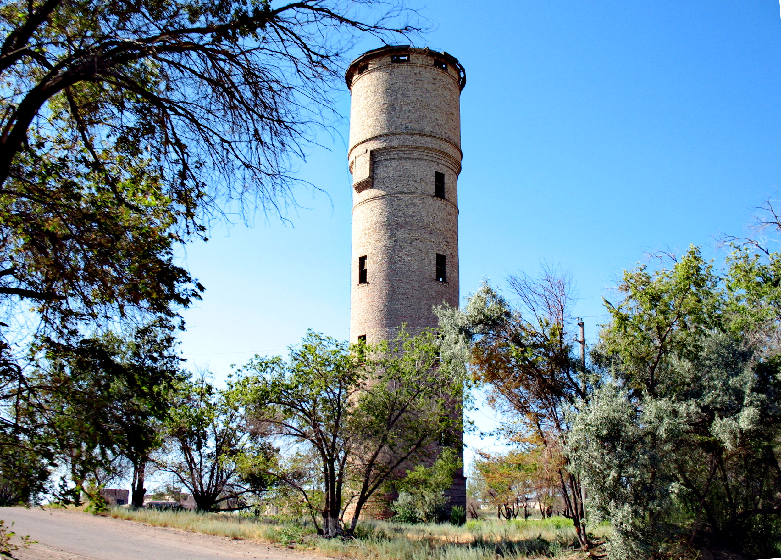 Priozersk city